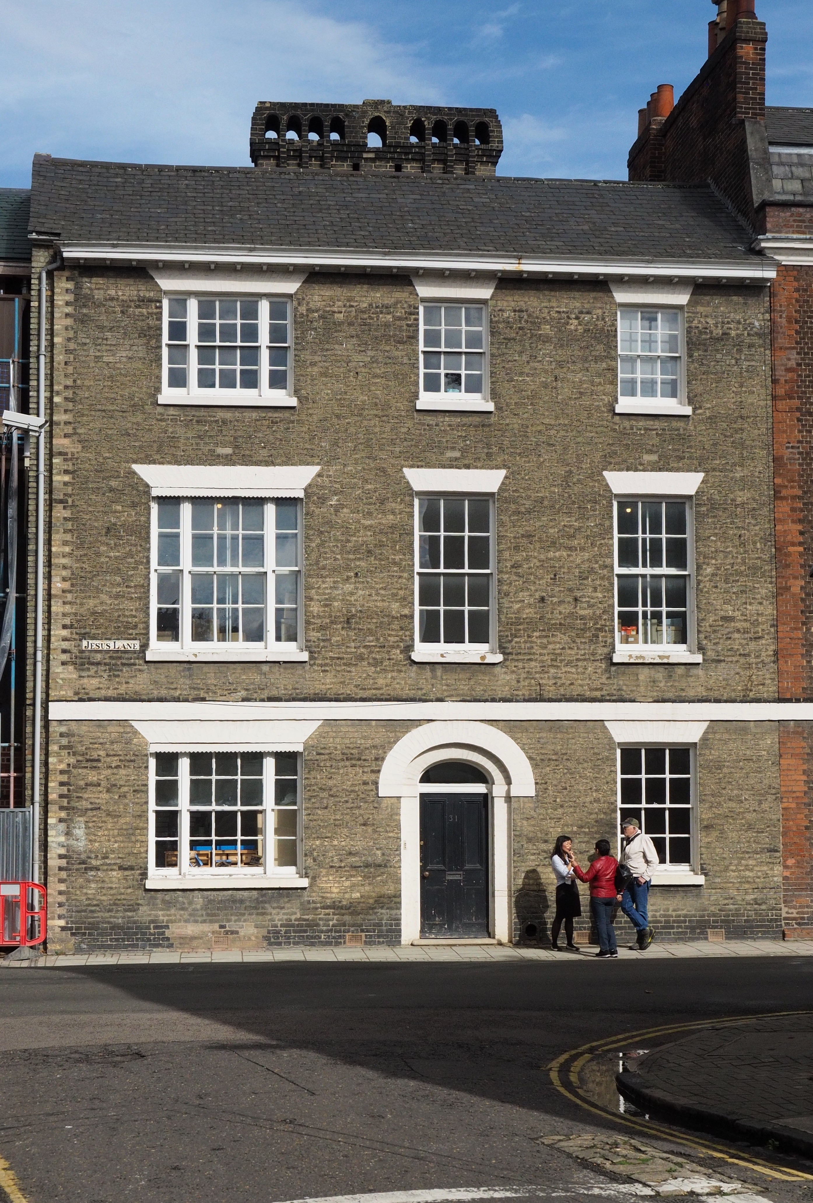 31, Jesus Lane, Cambridge Wikidata has entry Q26392041 with data related to this item.